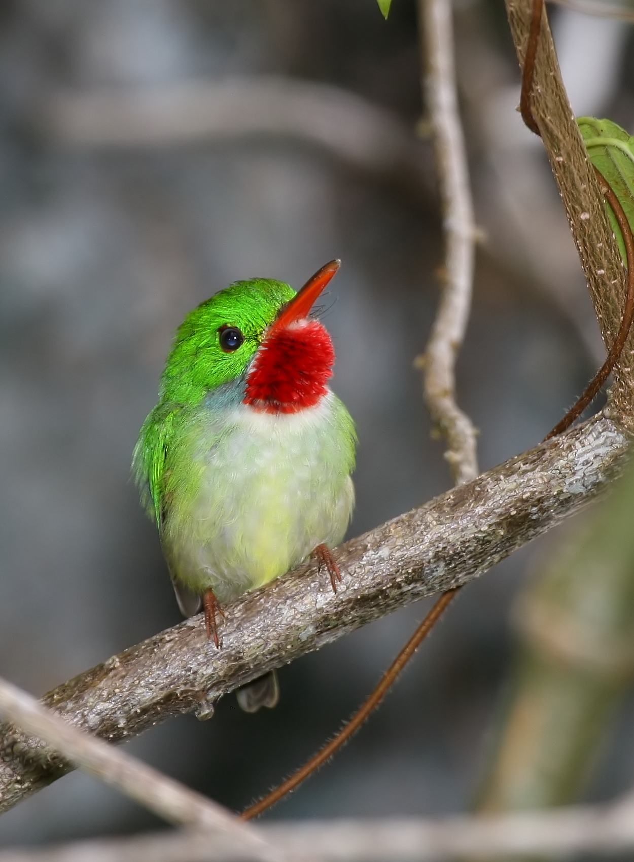 Jamaican Tody Todus todus, cropped by User:Sabine's Sunbird